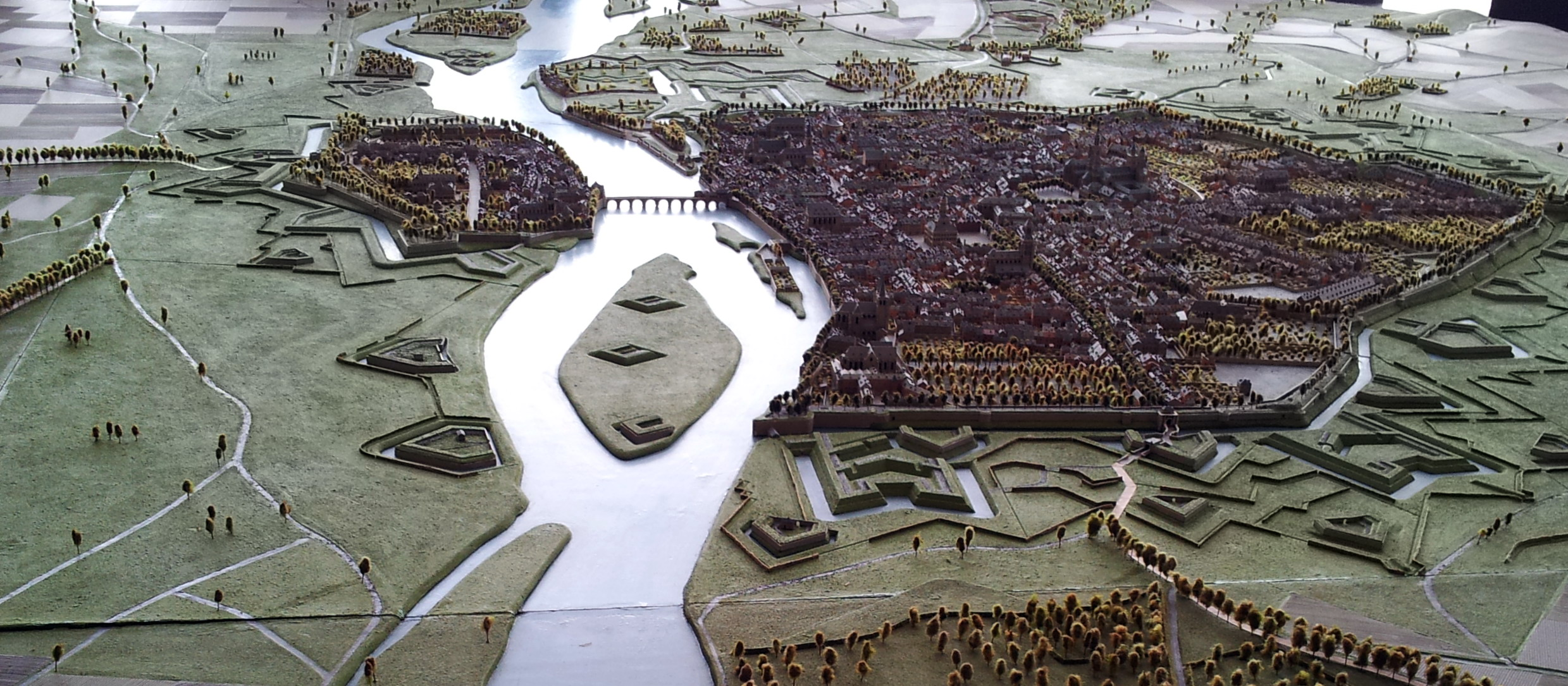 View from the North of the so-called Copy of the Paris Maquette of Maastricht, photgraphed in 2013 in Centre Céramique in Maastricht, the Netherlands.